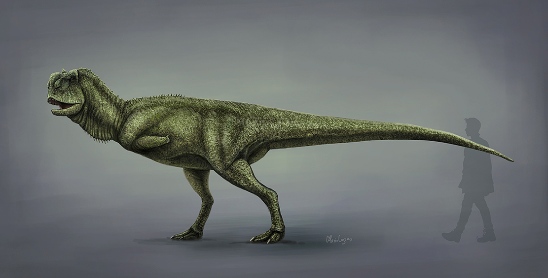 Pycnonemosaurus restoration 2020